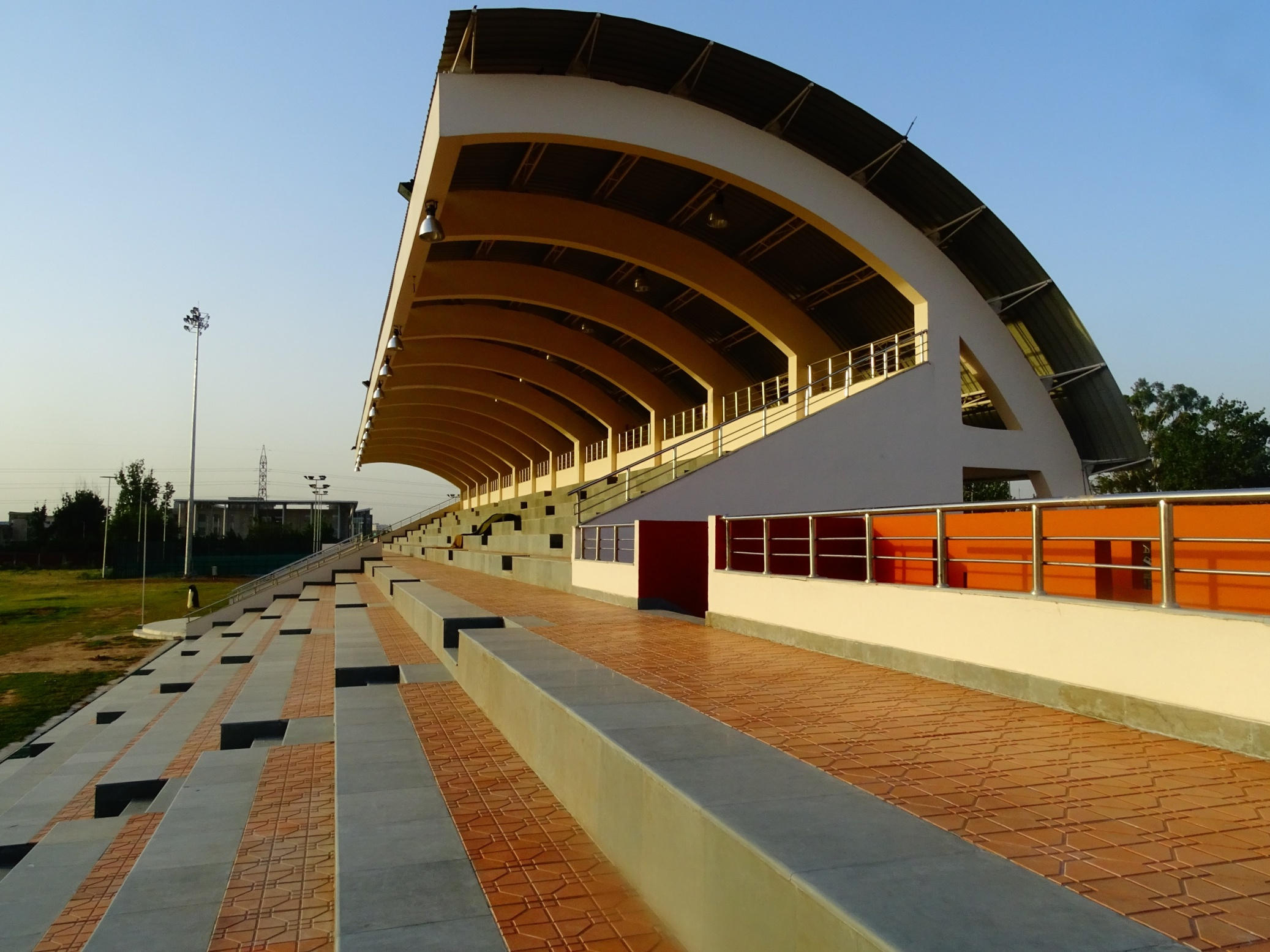 IISER Mohali completed its elegant sports stadium capable of seating 1000 individuals comfortably in 2014. Equipped with a cantilever roof, the stadium hosted football matches as well as athletics events during the Inter-IISER Sports Meet (IISM) 2014.